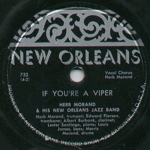 New Orleans Records 78 label